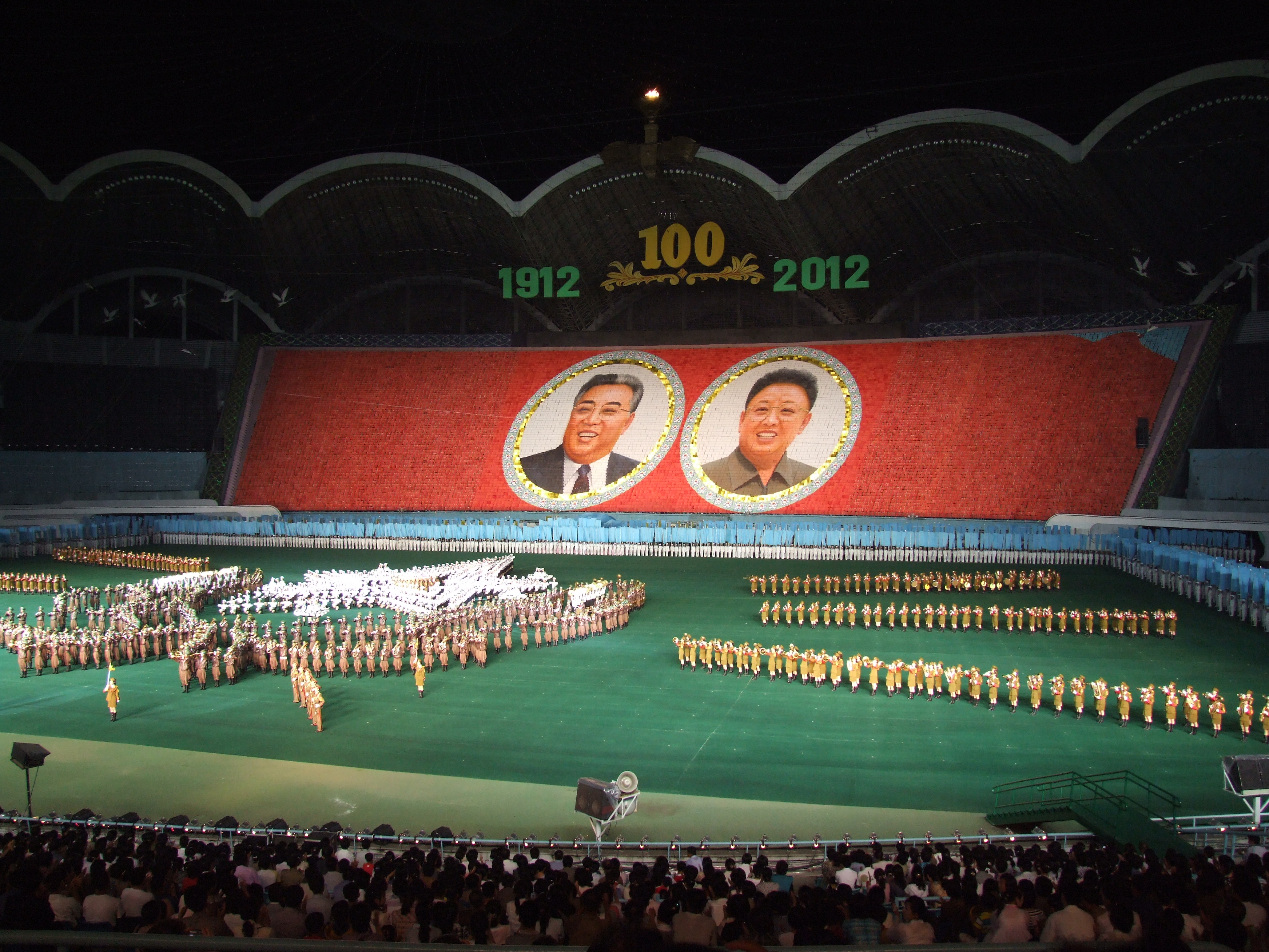 Arirang Mass Games